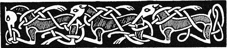 An image from page 149 of Deoraidheacht by Pádraic Ó Conaire